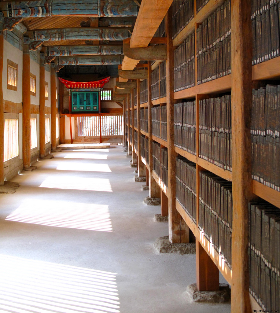 A furtive view of the Tripitaka Koreana Buddhist tablets, Haeinsa Temple, South Korea